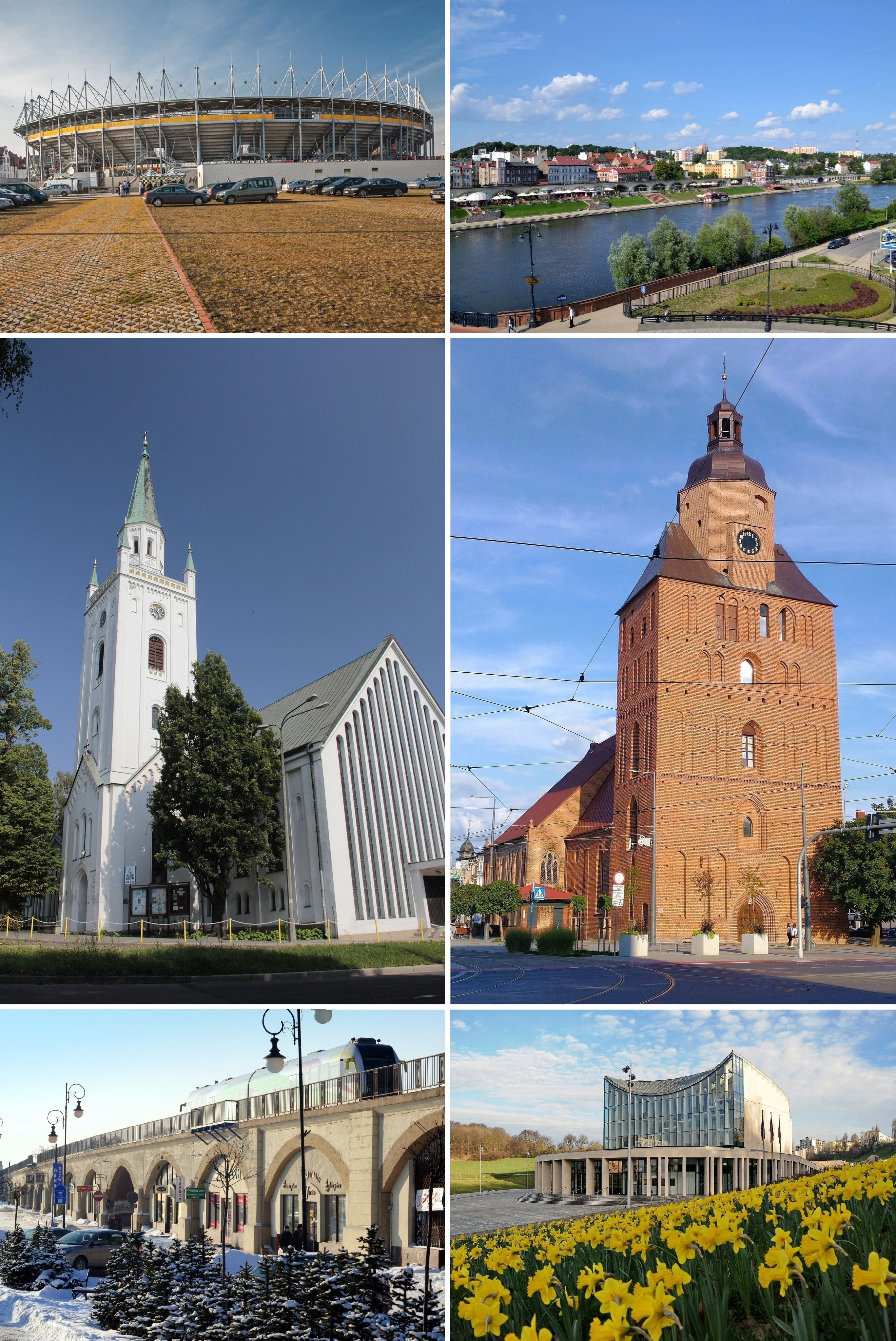 Collage of views of Gorzow Wielkopolski, Poland